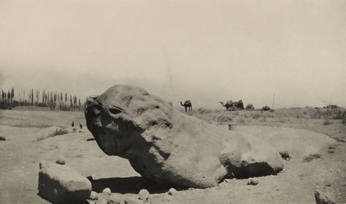 Hamedan ,Iran